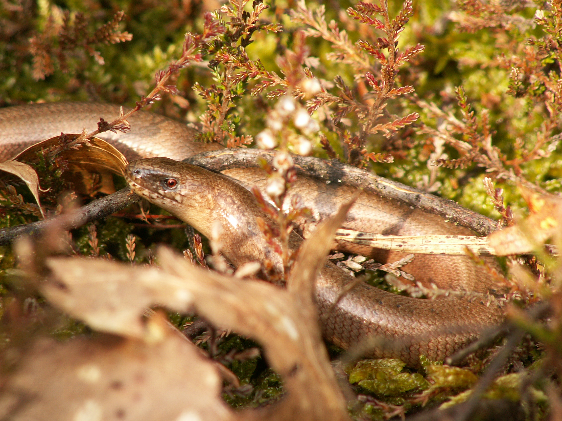 A male slow worm Anguis fragilis sunbathing in early spring. (Males have greyish color often and the head is more sturdy then the female head).Taken on small strip of heathland near Arnhem, the Netherlands. Preferred habitat in the Netherlands is mixture of heathland and woods, well exposed to the sun.